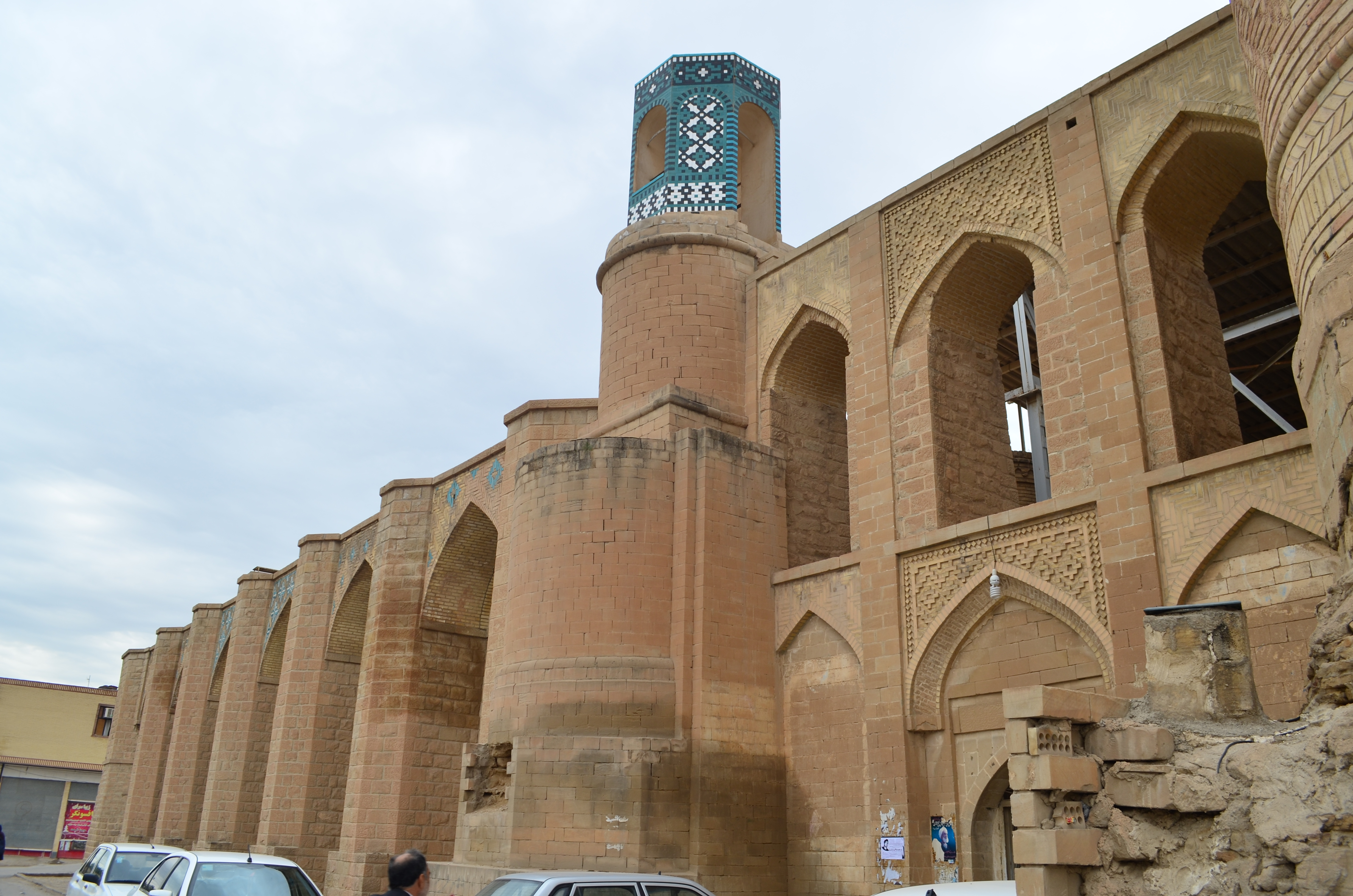 Jama Masjid of Shushtar in Shushtar, Iran